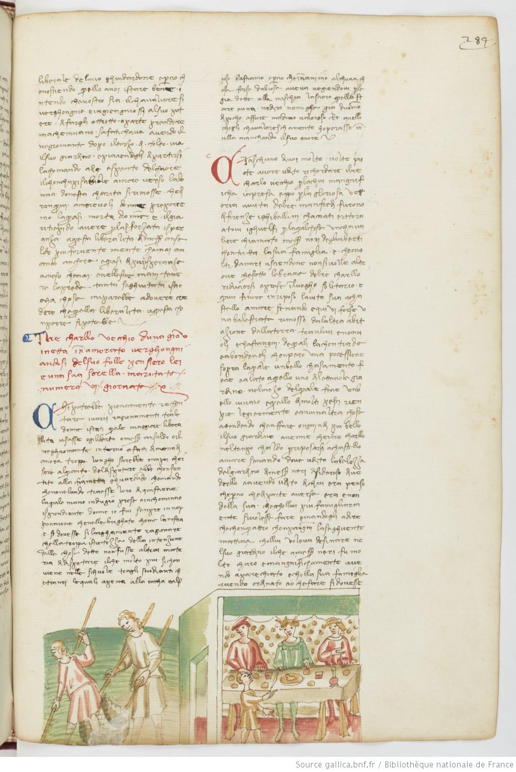 BNF MS Italien 63, fol. 284r: Boccaccio, Decameron: tale 10.6